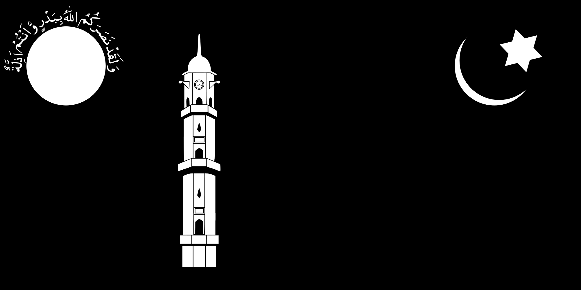 Liwa-e-Ahmadiyya, the flag of Ahmadiyya Muslim Community. The Liwa-e-Ahmadiyya was risen first on 28 December 1939 on Jalsa Salana in Quadian. Middle-left is the White Minaret and in both edges at the same high are on the left side the full moon (Badr) and right the crescent (Hilal) with six pointed star. Over the full moon Badr is written a part of the verse 124 from Sura Ali-Imran. (English translation: „Allah had helped you at Badr, when ye were a contemptible little force.“)